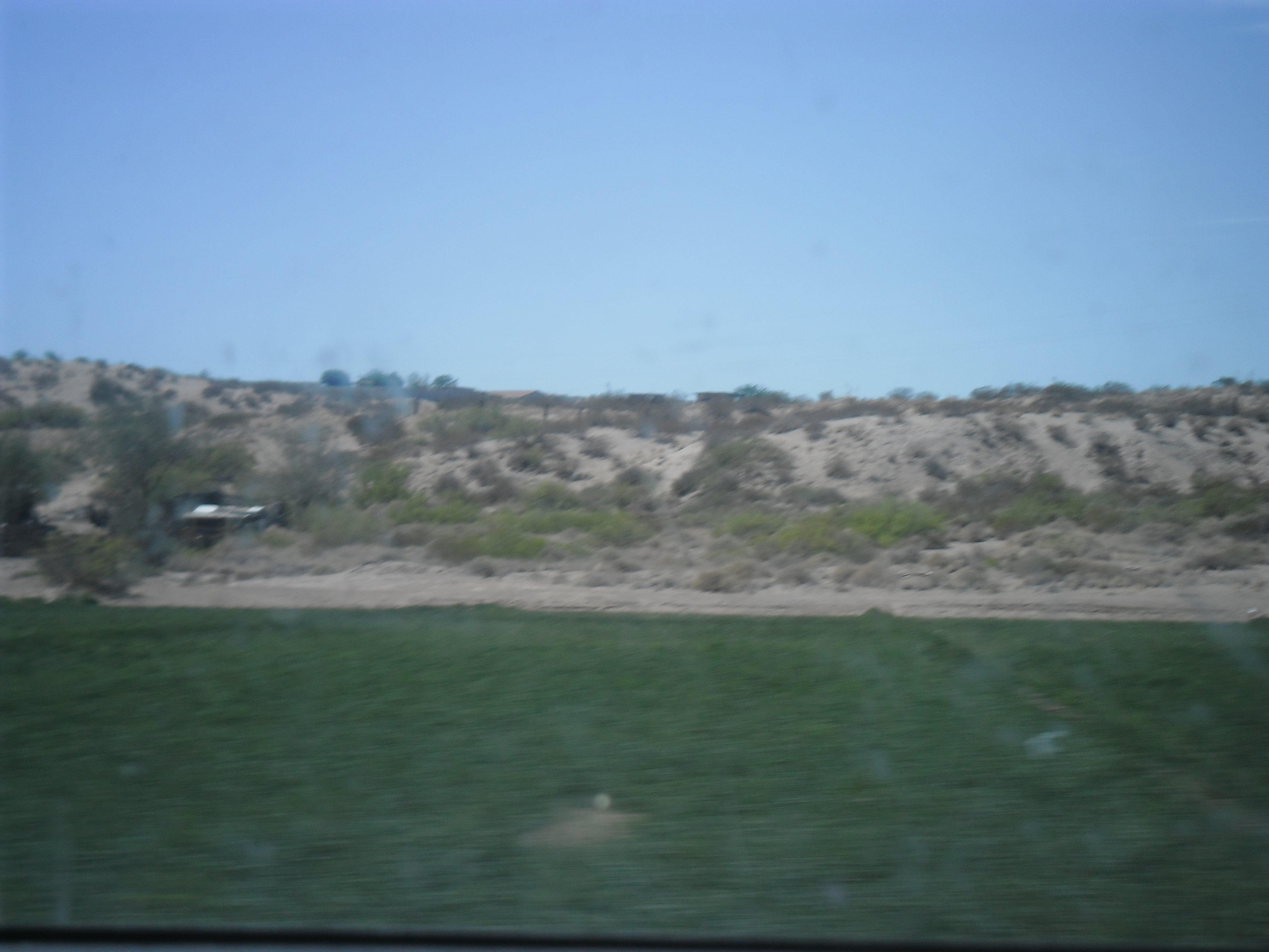 VALLE